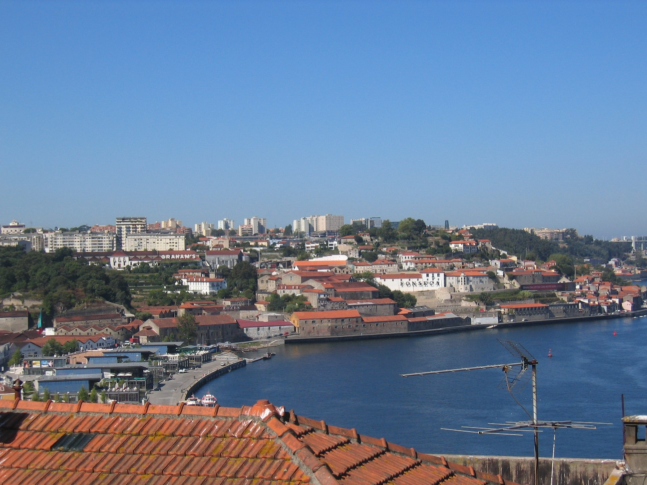 Vila Nova de Gaia, the town on the south bank of the Douro river, where the storage houses for all the major Port wine companies are located.